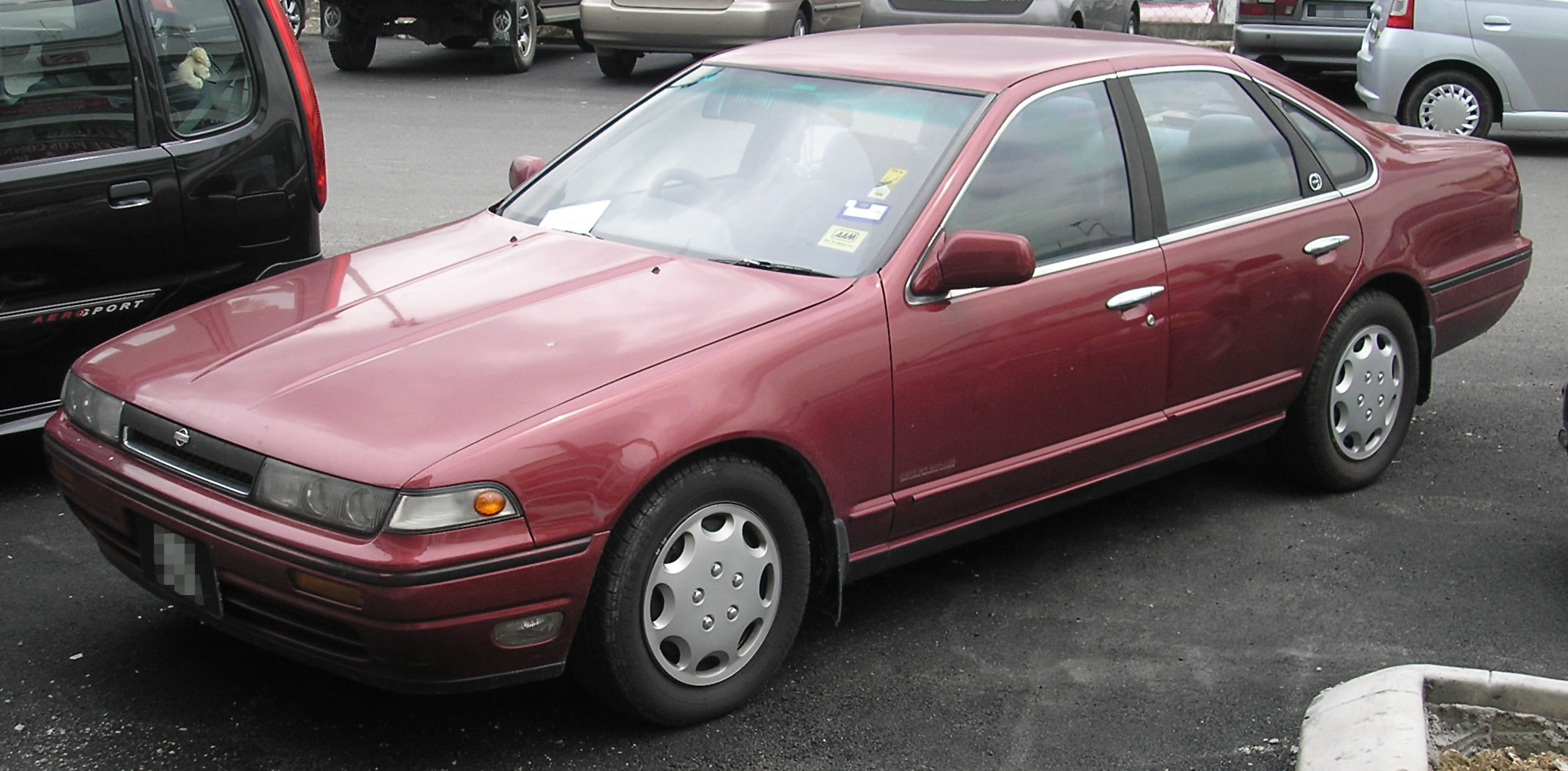 Front quarter view of a first generation Nissan Cefiro, in Serdang, Selangor, Malaysia.